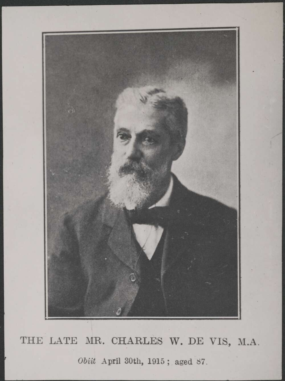 Charles Walter De Vis